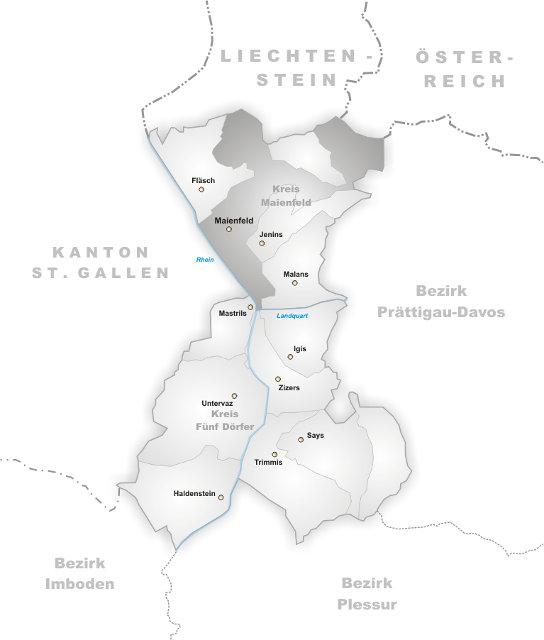 Municipality Maienfeld